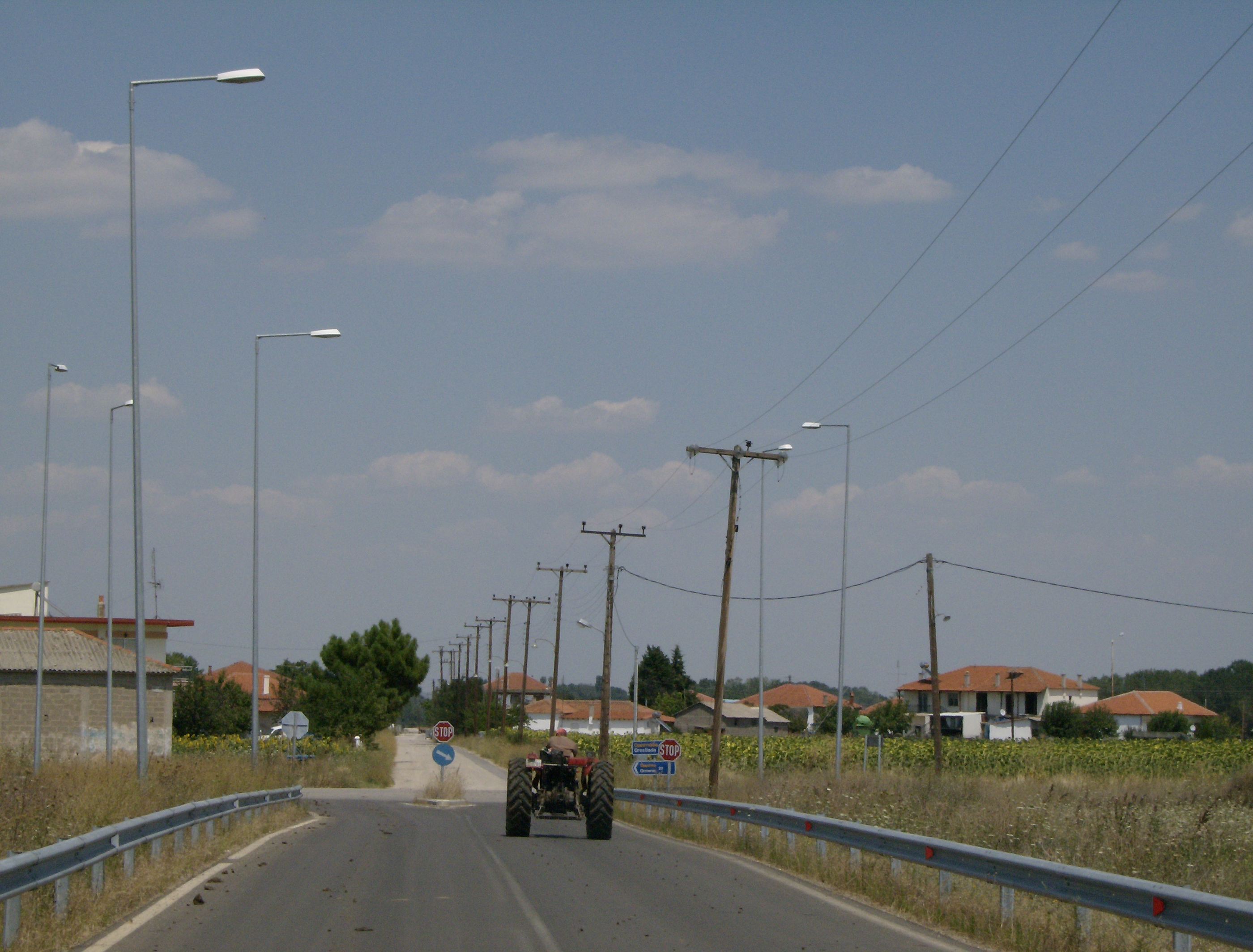 Kyprinos